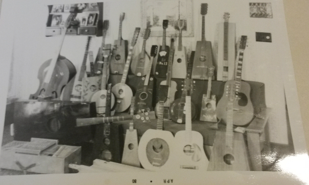 Mayfield Music Company instruments